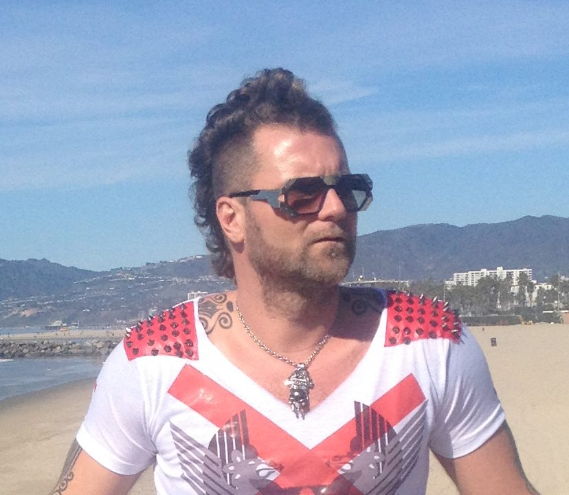 Zoltán Herczeg, California, 2013. First presence in the U.S.